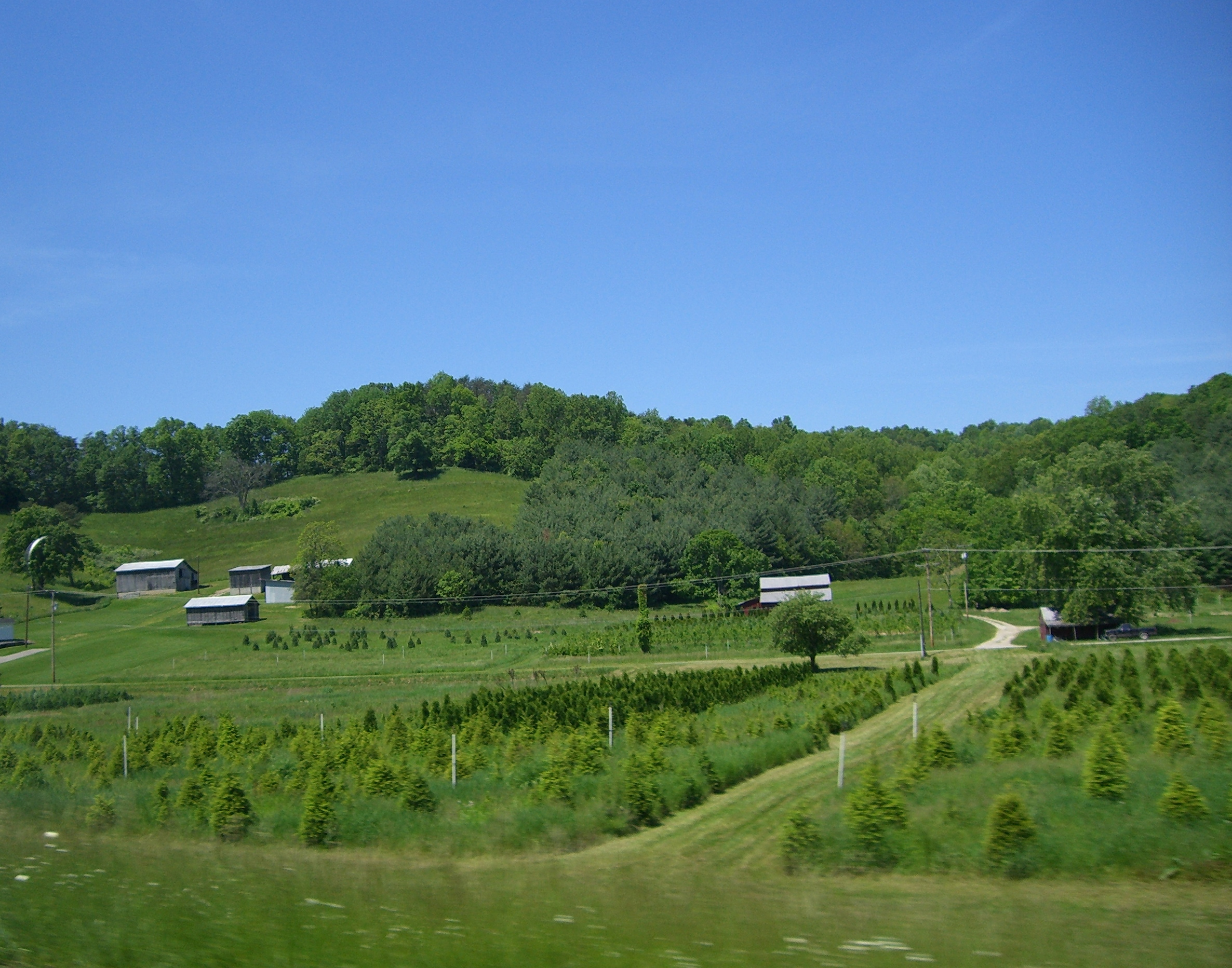 Rush, KY